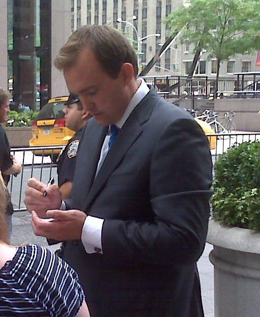 Brian Sullivan of Fox News signing autograph for fan